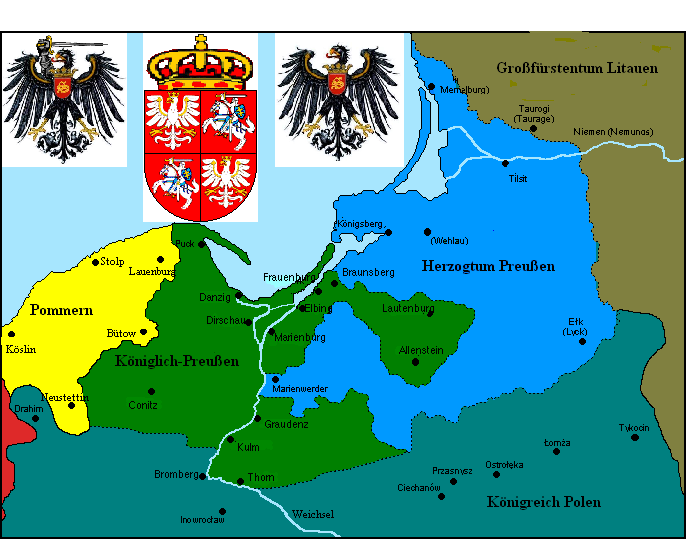 Map of Royal Prussia and surroundings in Early Modern Times